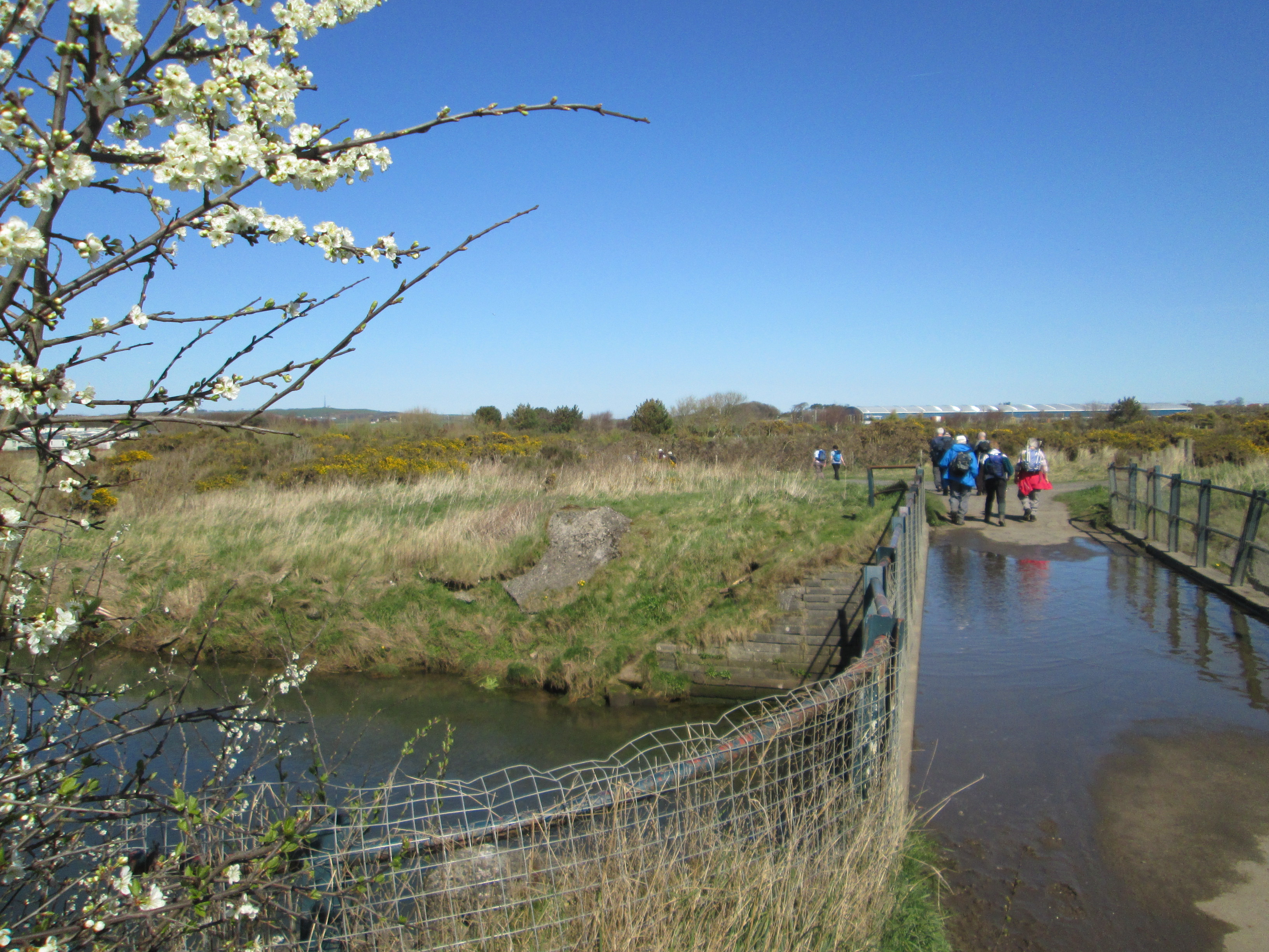 The Ayrshire Coastal Path crosses the Pow Burn shortly before the burn reaches the Firth of Clyde.